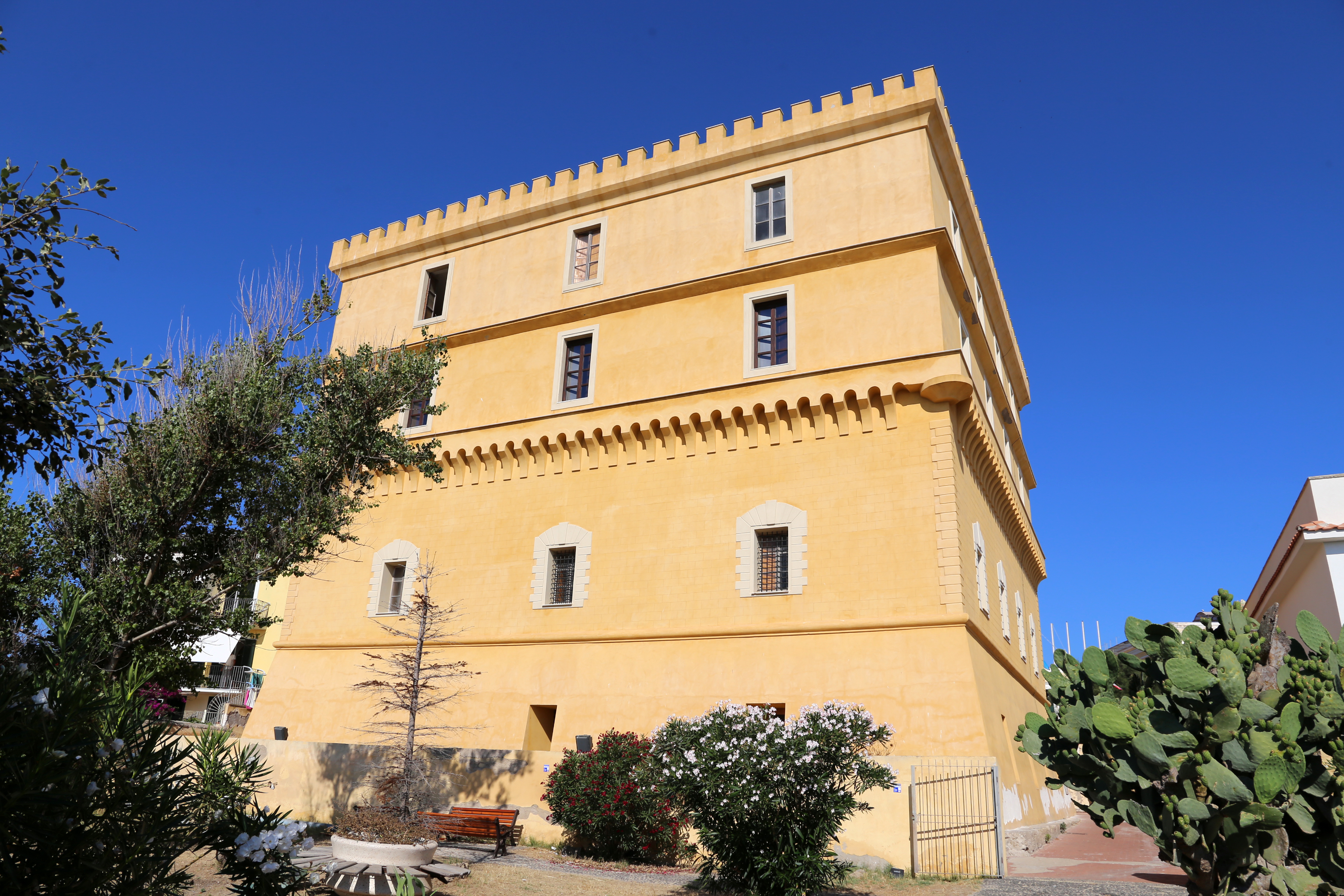 Ventotene Castle